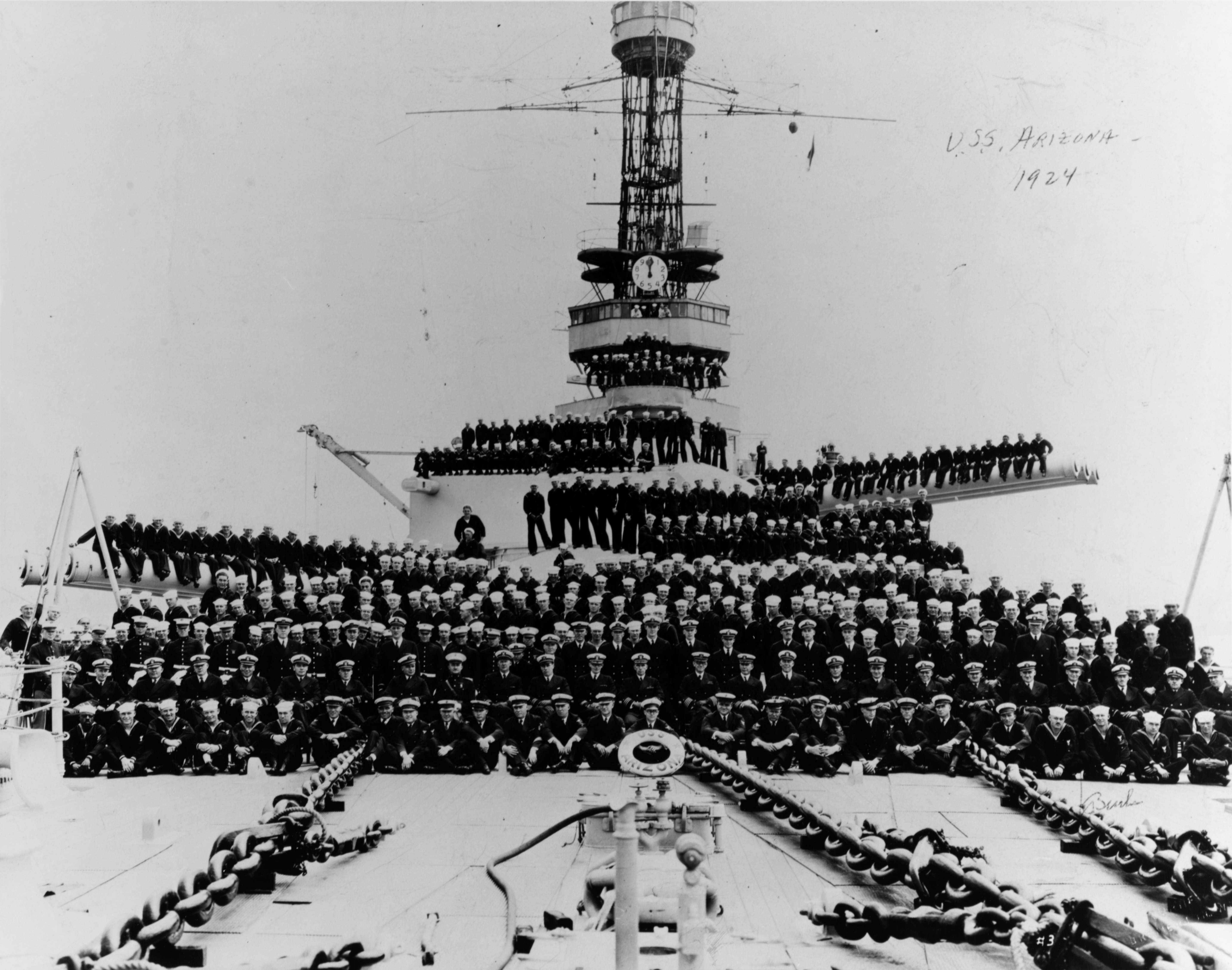 Ship's complement posing on her forecastle, forward turrets and superstructure, circa 1924. The officer seated in the second row, 4th from right, is Ensign Arleigh A. Burke. Collection of Admiral Arleigh A. Burke, USN, 1977. U.S. Naval History and Heritage Command Photograph.